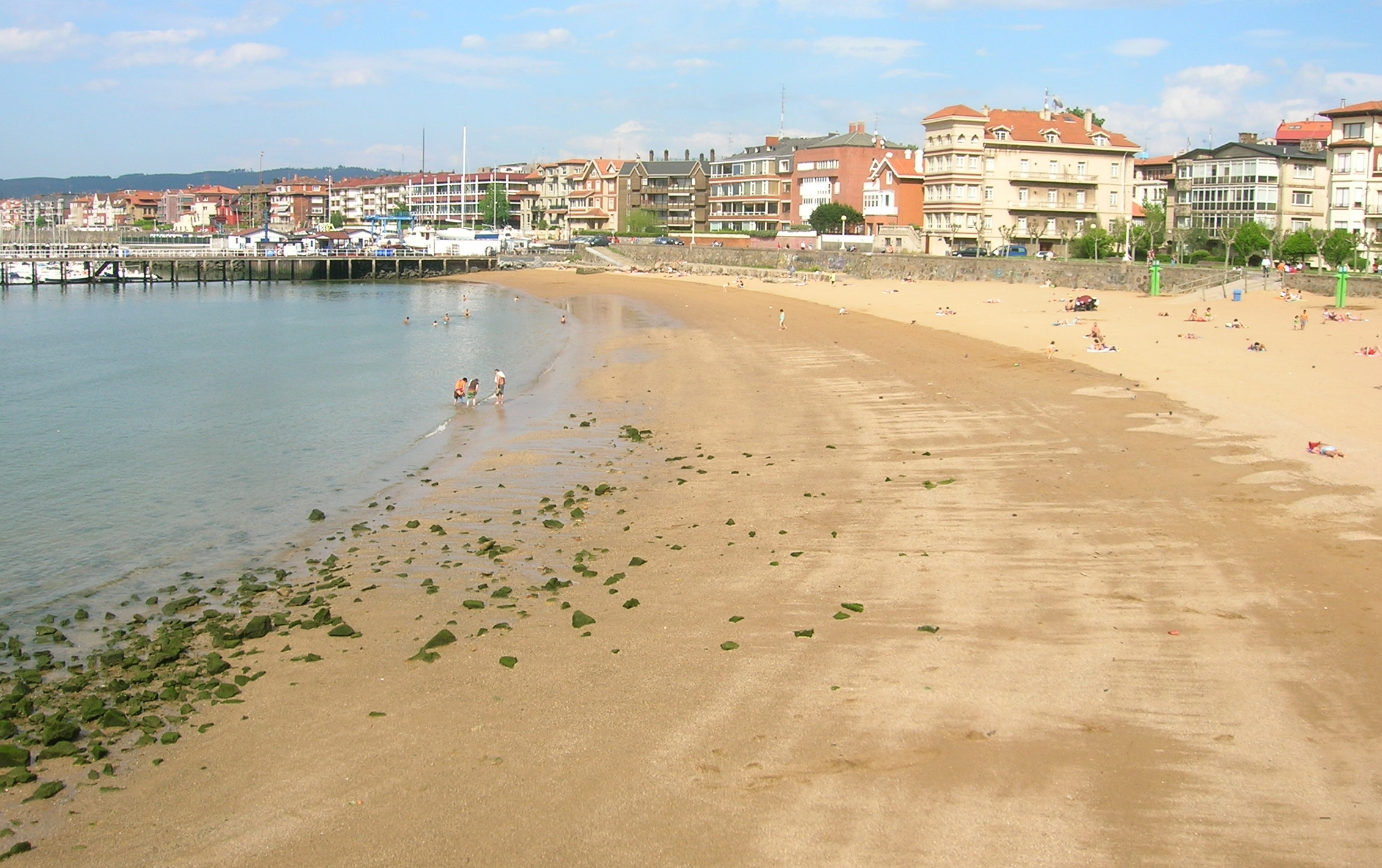 Areeta - Las Arenas Beach, Getxo, Biscay